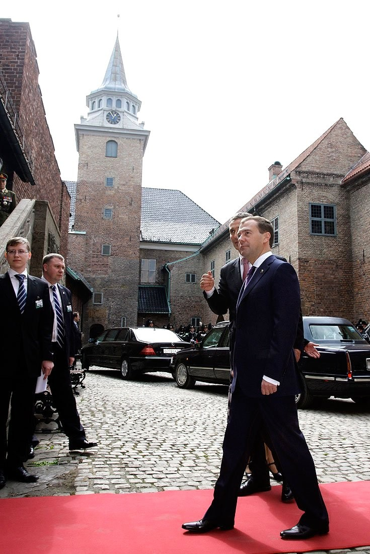 President Dmitry Medvedev's two-day state visit to Norway 26.-27. April 2010. With Norwegian Prime Minister Jens Stoltenberg. In the Akershus Castle.